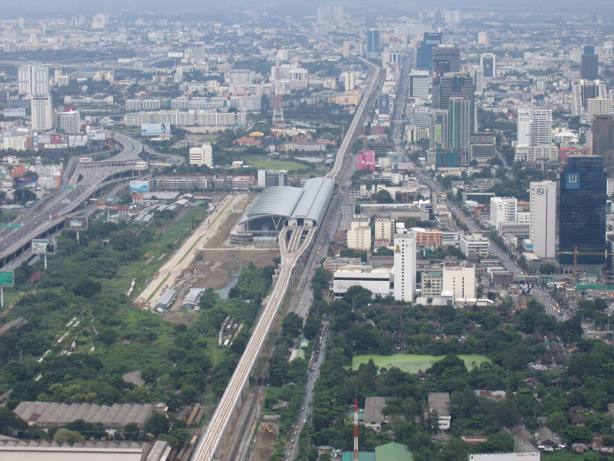 City Air Terminal (August 2009) in Bangkok, Thailand. The Terminal was first opened on December 5, 2009. This line connects Suvarnabhumi Int. Airport with the city center of Bangkok.